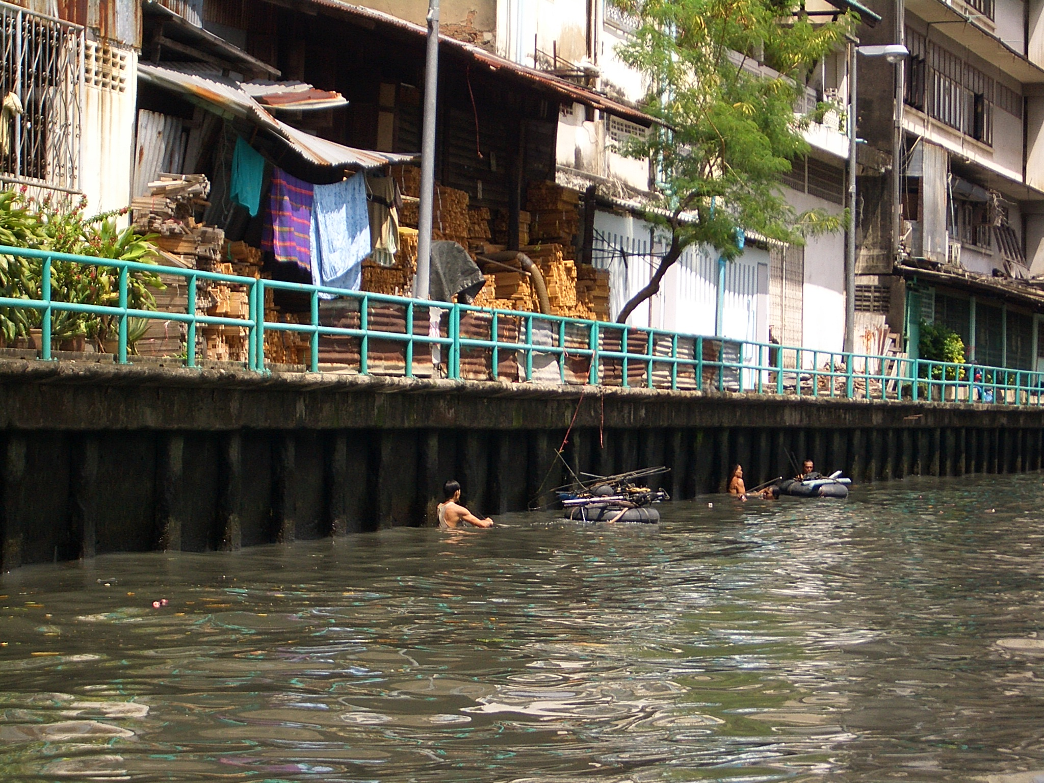 People appearing to be retrieving scrap metal from the bottom of Klong San Sap (Khlong Saen Saeb) in Bangkok. Photo taken from a canal boat.